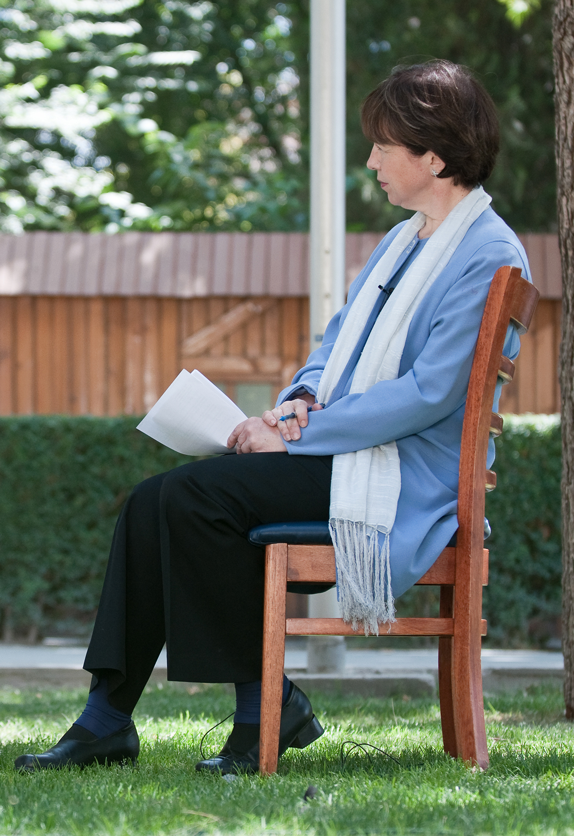 Lyse Doucet, cropped from the photo with Stanley McChrystal